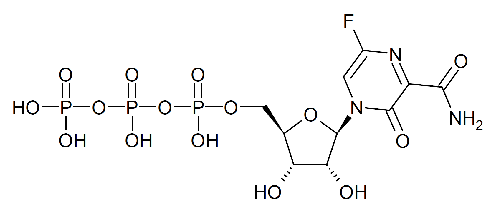 Structure of favipiravir ribofuranosyl triphosphate